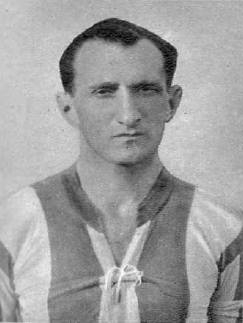 Gyula Mándi Hungarian football player